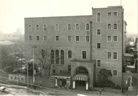 This was Meikei Kaikan in Bunkyo, Tokyo, Japan.